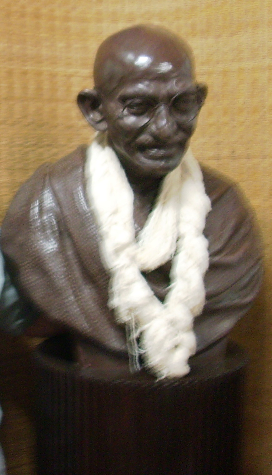 نصب تذكاري لمهاتما غاندي